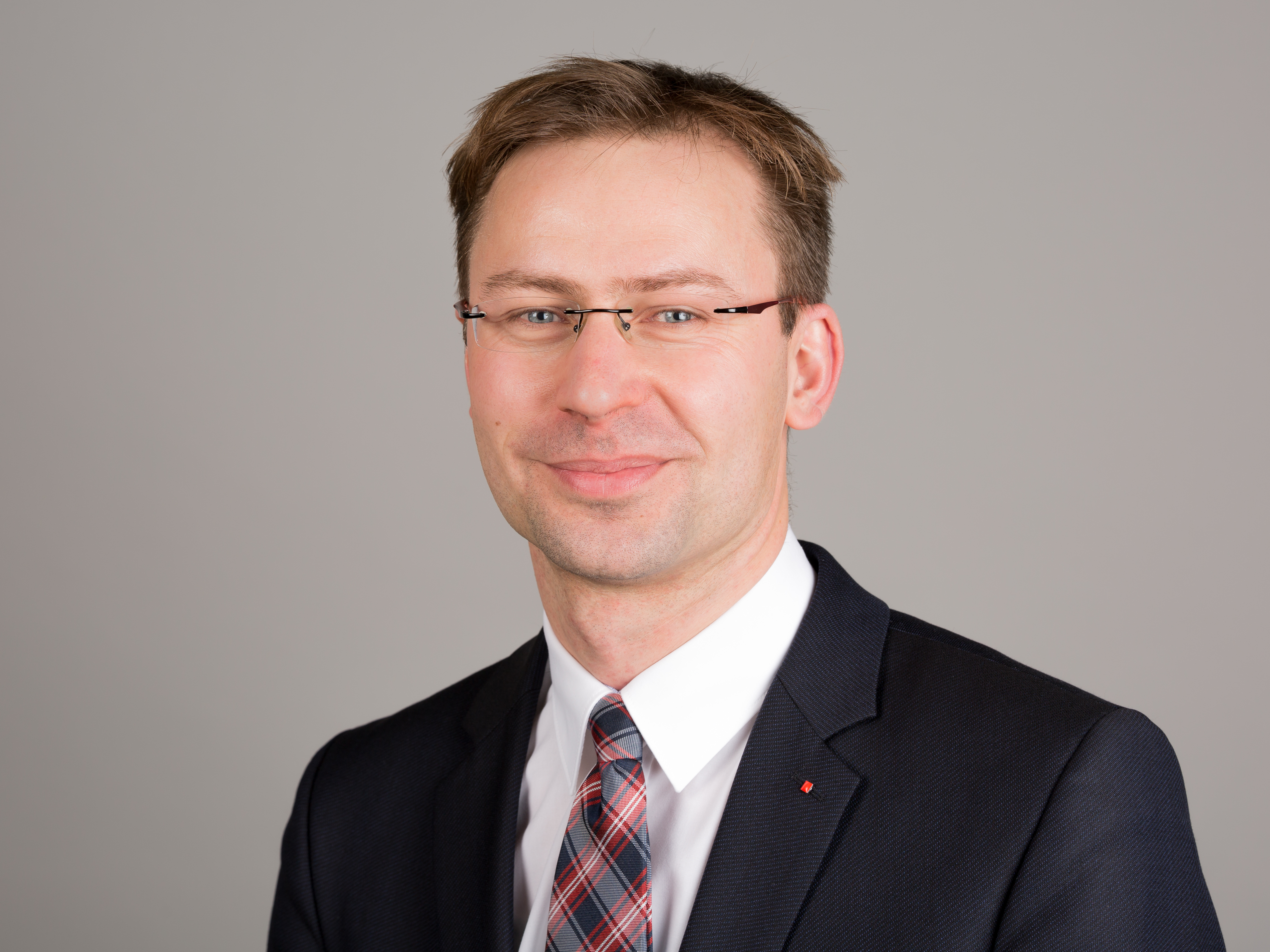 Holger Mann, SPD, Member of the Parliament of the Free State of Saxony